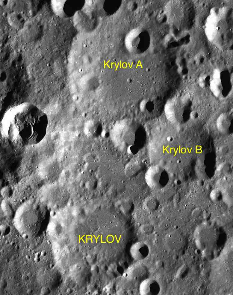 Part of the chart LAC-33 used for the presentation